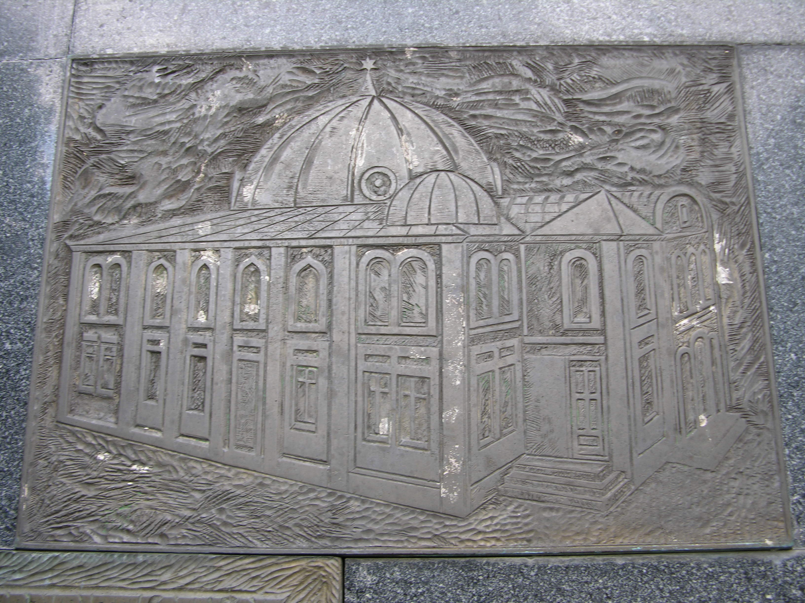 Great Synagogue in Białystok